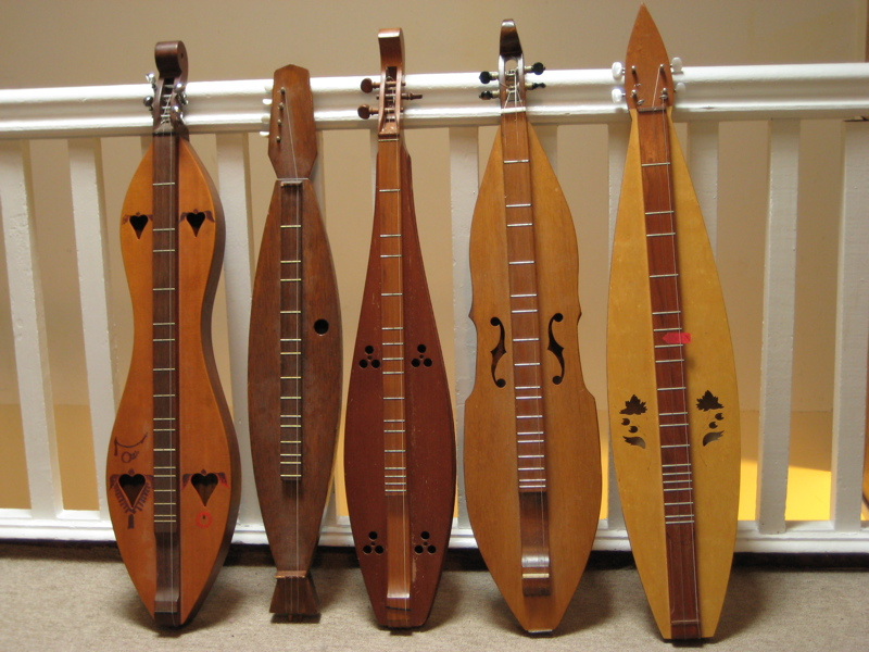 A variety of shaped of Appalachian dulcimer. I don't recall all the makers, but the small dark-brown one is a Hughes, the violin-shaped one is a Pete Wheeler, and the leaf-shaped one is a Cedar Creek. The one on the far left with the painting is out of some small outfit in Washington State.